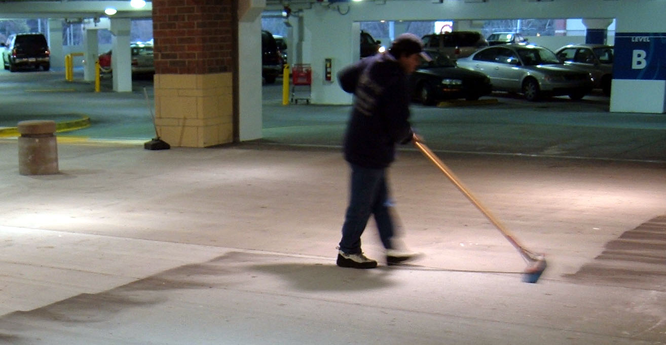 A worker sweeps up settled particulates. He is sweeping an area blocked off to cars and very rarely used by people, so the dirt is assumed to have arrived from the air.The specific location is the ground floor of the parking deck serving Publix, Target, and other stores in the Buckhead region of Atlanta, GA, USA.